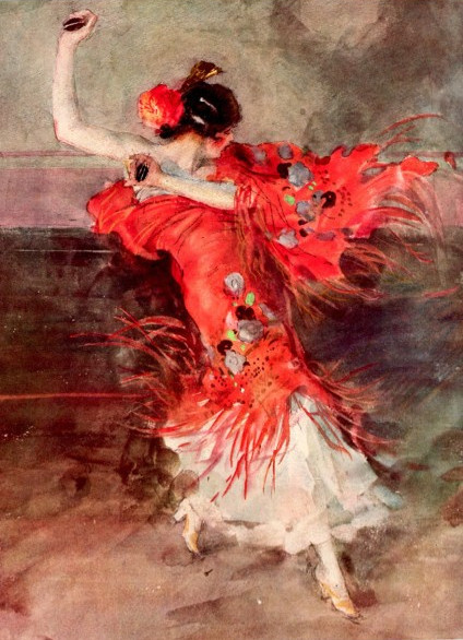 Water painting by Antoine Calbet